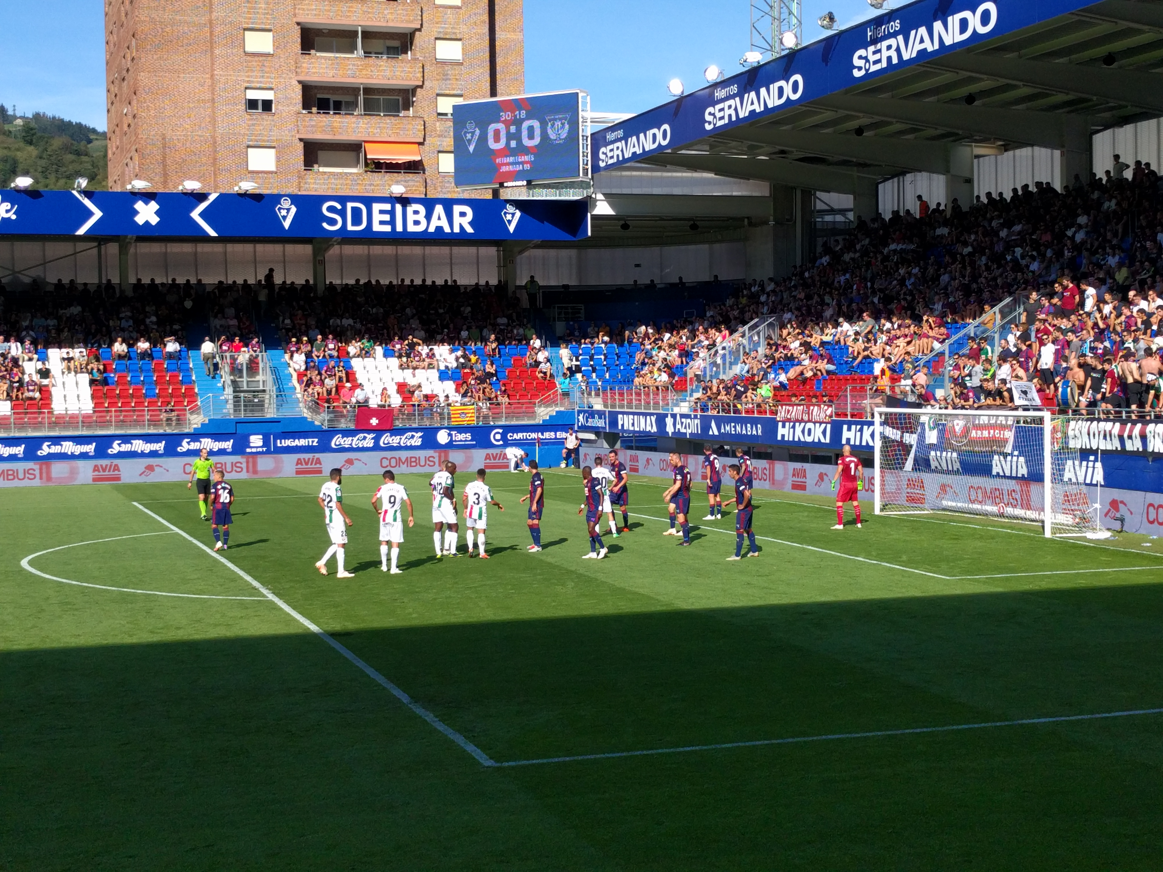 Match of Primera División, LaLiga 2018-19, SD Éibar 1:0 CD Leganés, Ipurúa